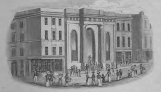 Picture of Old Market Hall in Birmingham from English Wikipedia. Original description: Scanned by Erebus555. This drawing is from the front cover of The History of Birmingham by William Hutton, 1836 which has been released on to the public domain by Google under Google Books.